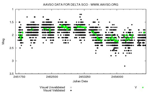 Light curve of Dschubba (Delta Scorpii) from July 2000 to May 2008